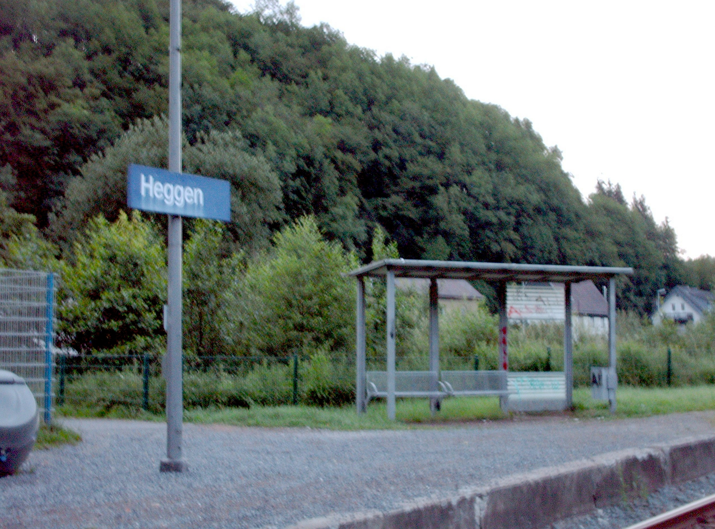 Heggen station, Finnentrop, Germany check usage